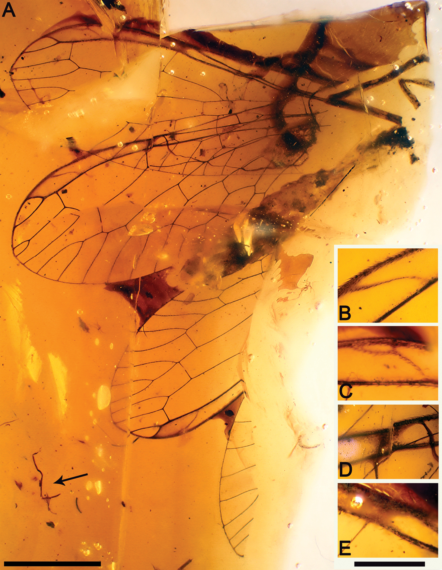 Necroraphidia arcuata gen. et sp. n., holotype CES 391.1. A ventral habitus, note some charcoalified plant fibers nearby the specimen (arrow) B right forewing pterostigmal crossvein C right hind wing pterostigmal crossvein D right forewing pterostigmal diffuse base E right hind wing pterostigmal diffuse base. Scale bars: A = 2 mm; B, C, D, E = 0.5 mm.